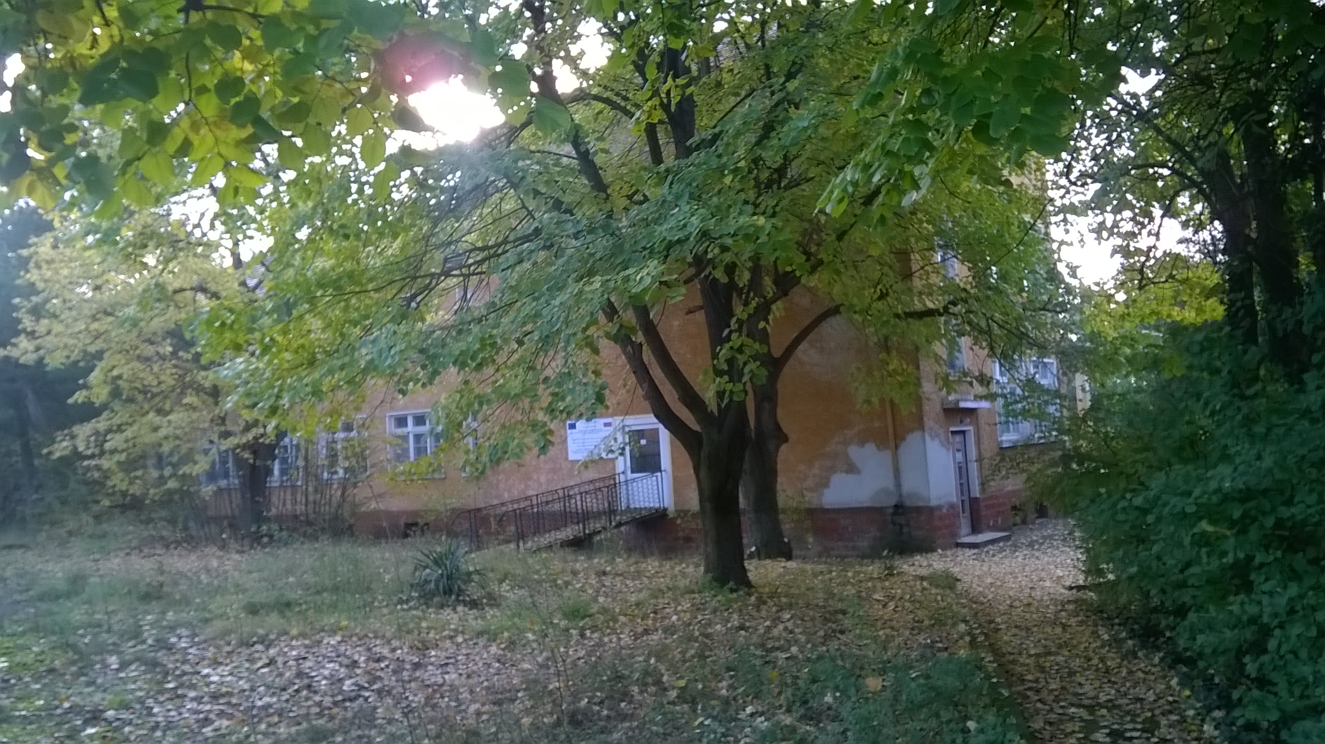 Photo taken 2015